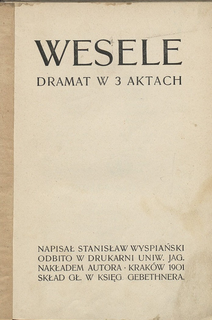 drama